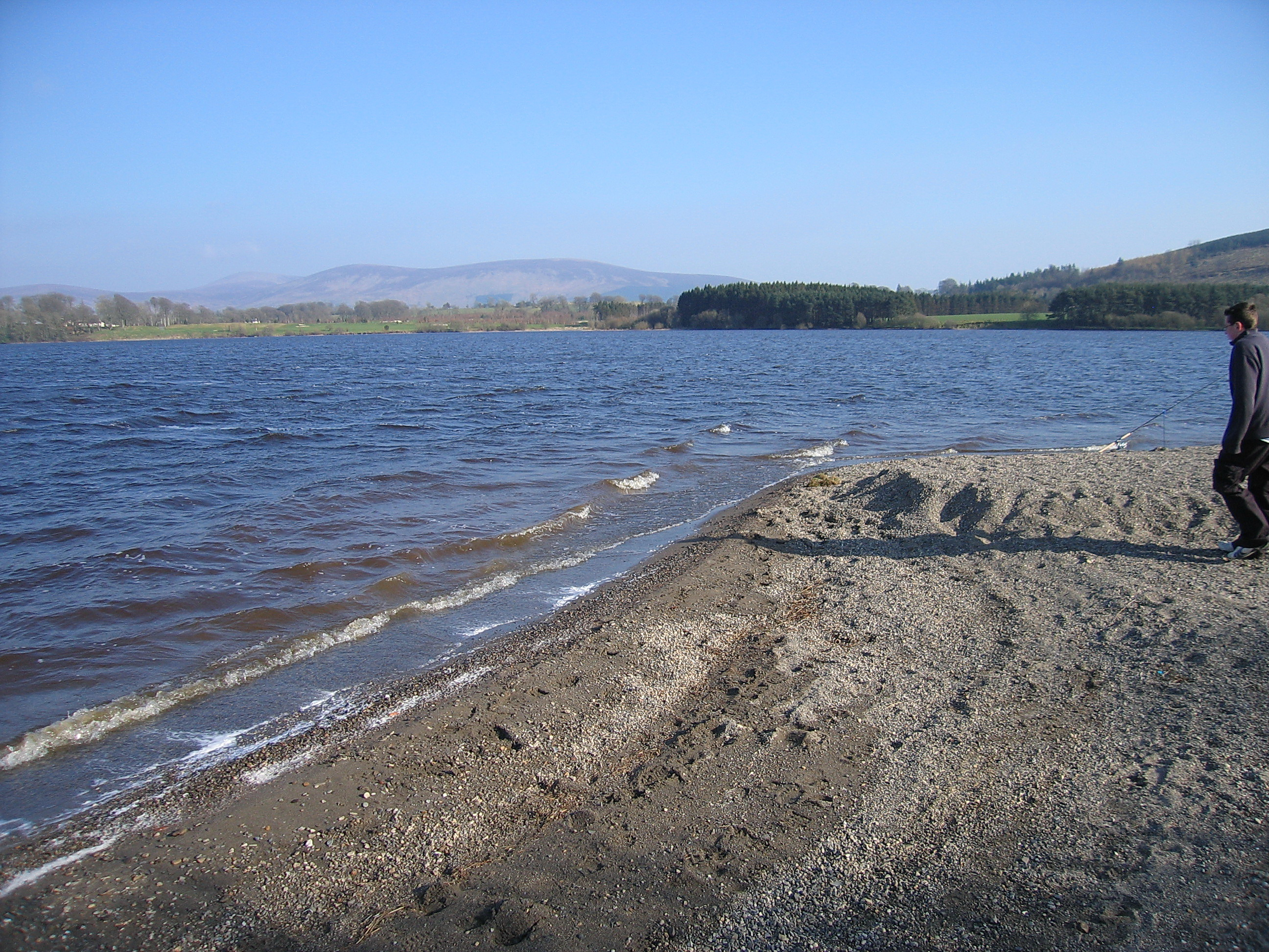 Lakes created by the Poulaphouca Dam, County Wicklow, Ireland